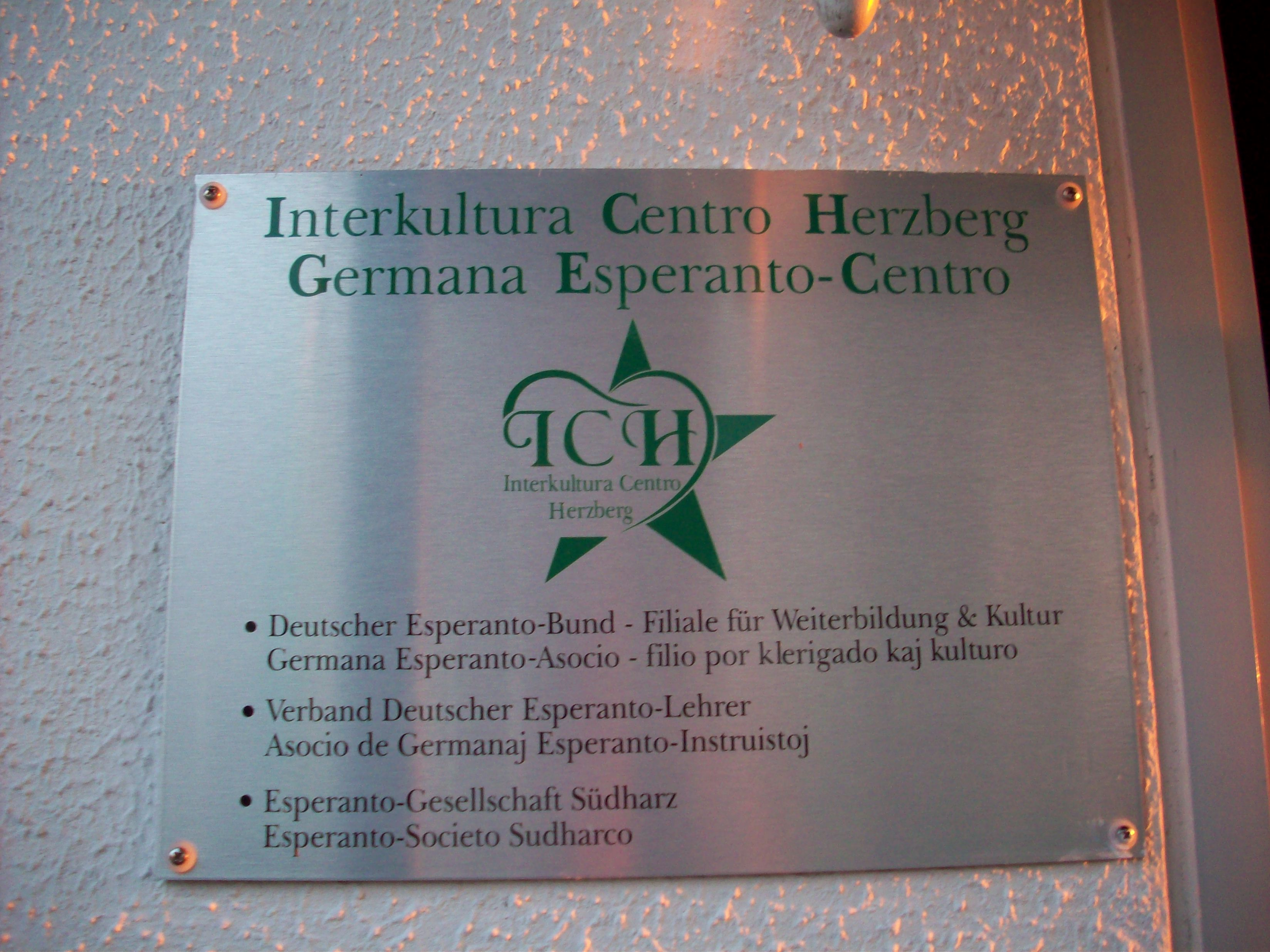 Shield of the Interkultura Centro in Herzberg-am-Harz, Germany